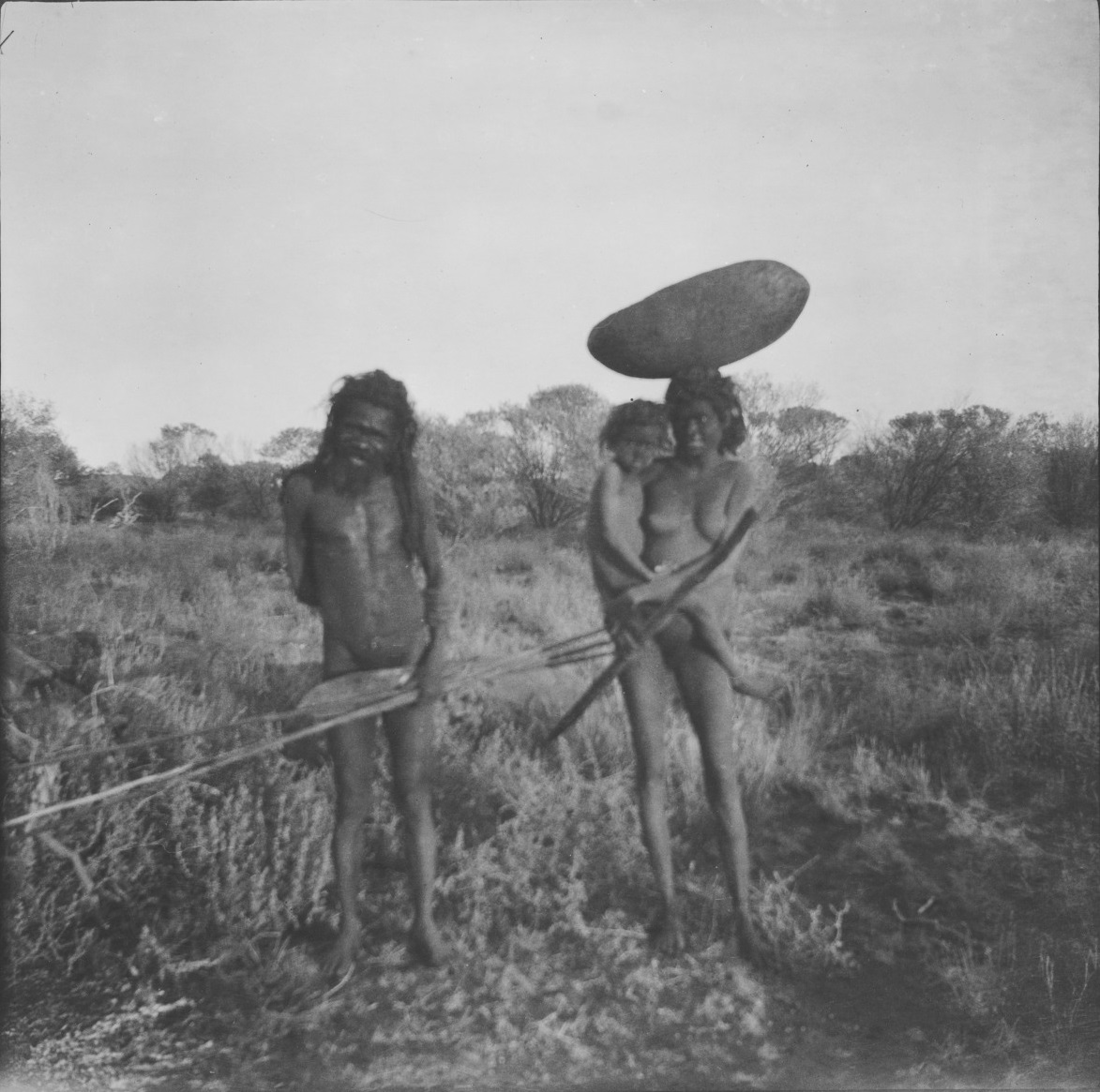 Dinjimanne his wife and daughter, Giles West Camp, South of Mt Woodroffe, south-central Musgrave Ranges, South Australia, 1903